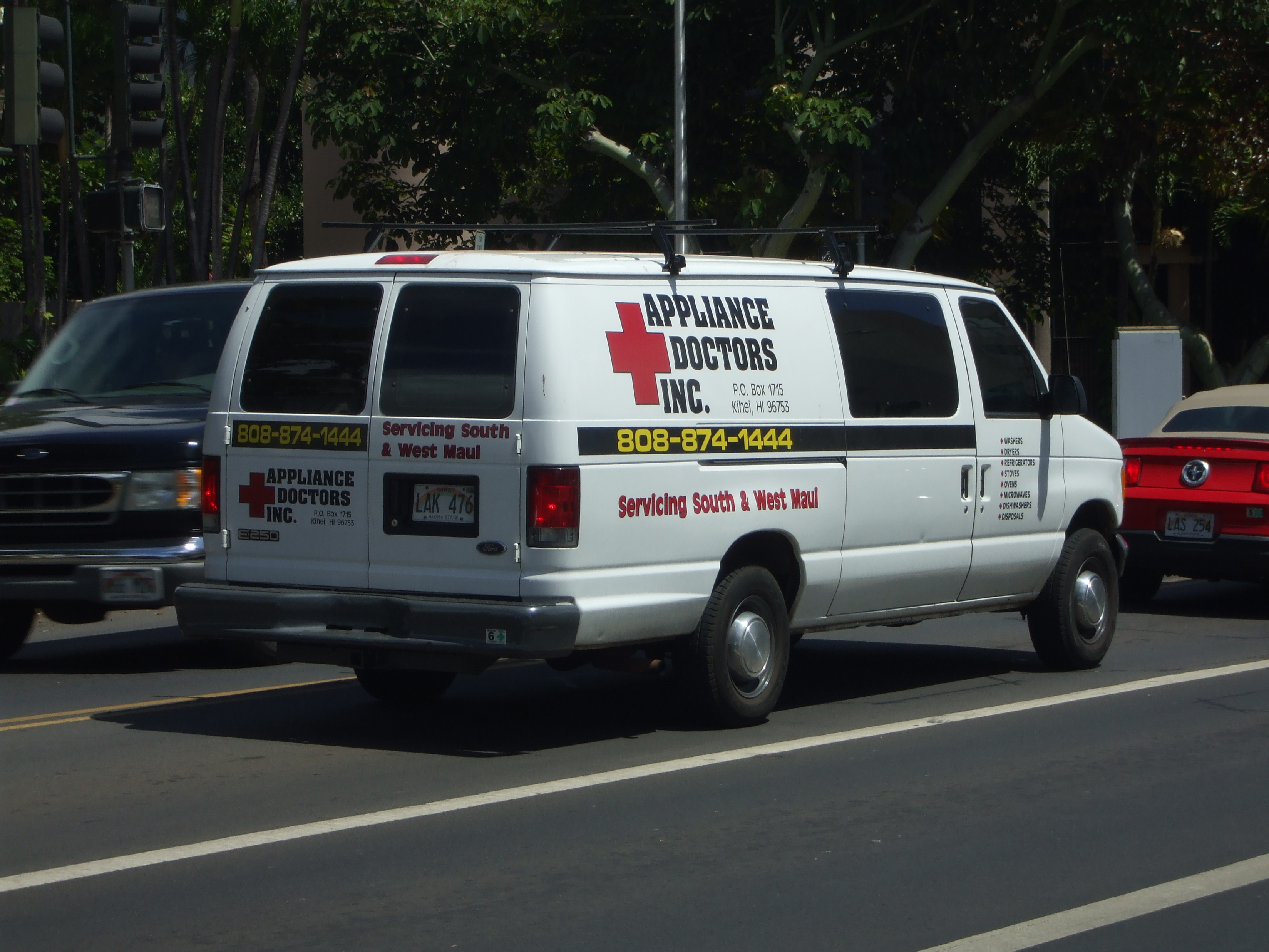 Appliance Doctors Inc. Van, showing misuse of the Red Cross logo.